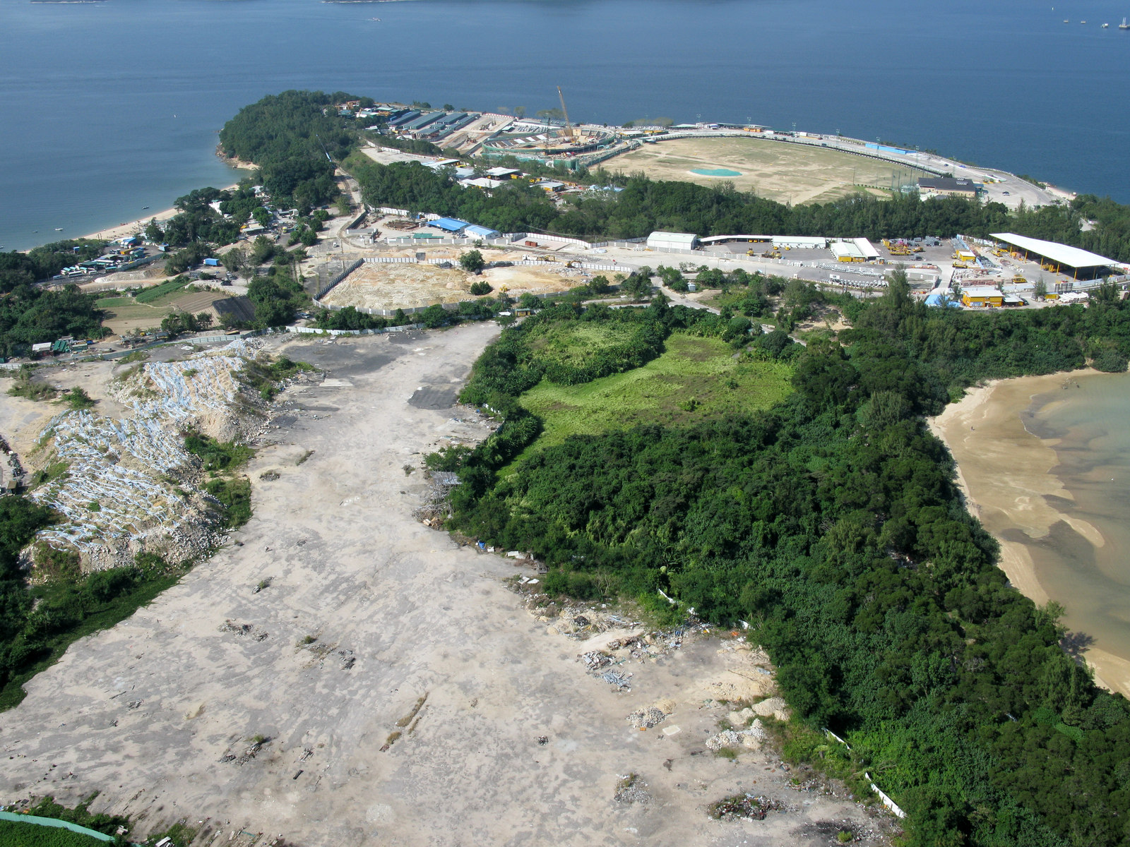 Lok Wo Sha, view from 65/F (43rd storey), Tower 6 of Lake Silver. Construction site of Henderson Lok Wo Sha Project is at the bottom left corner of the photo.